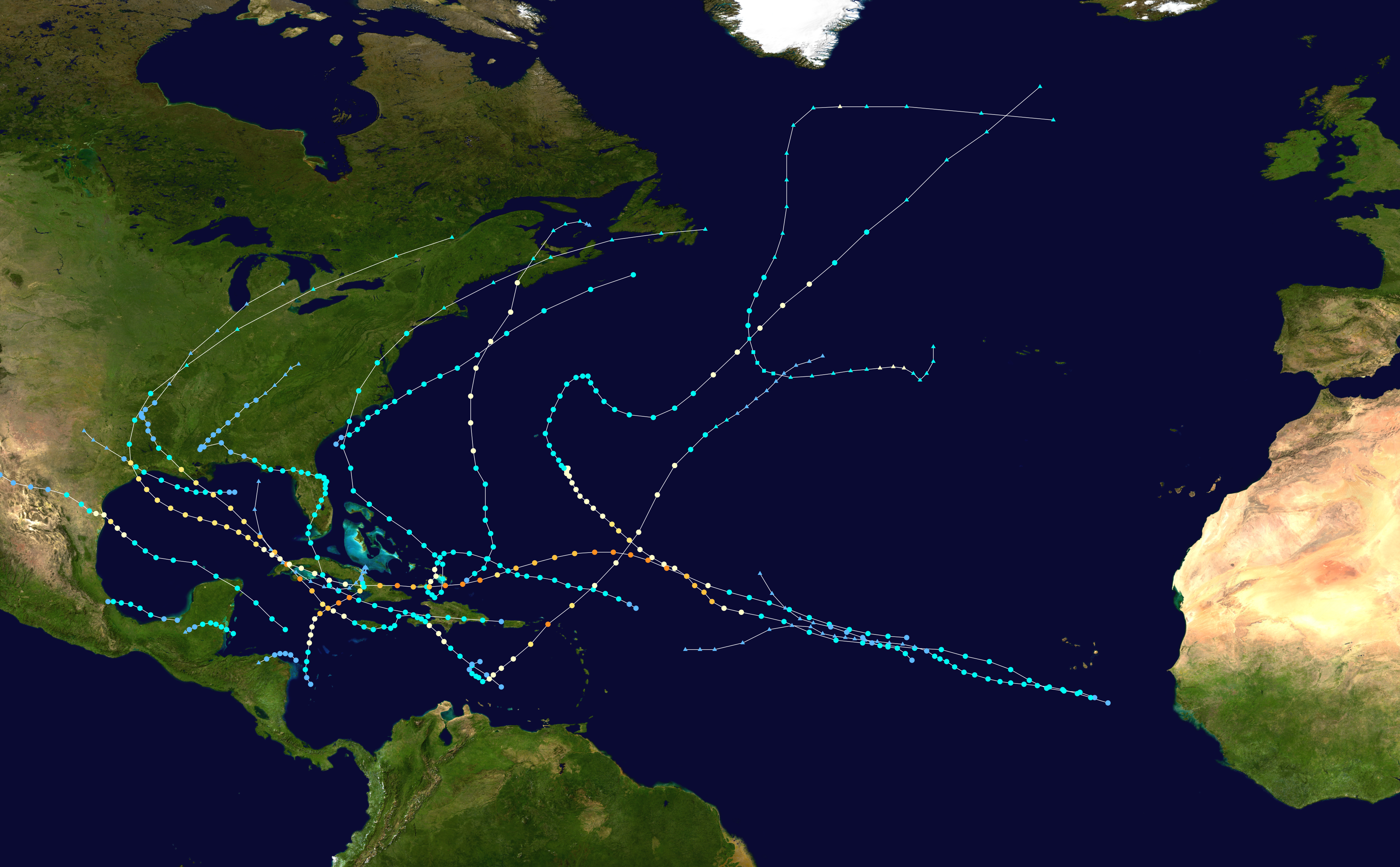 This map shows the tracks of all tropical cyclones in the 2008 Atlantic hurricane season. The points show the location of each storm at 6-hour intervals. The colour represents the storm's maximum sustained wind speeds as classified in the Saffir-Simpson Hurricane Scale (see below), and the shape of the data points represent the type of the storm. Saffir–Simpson scale Tropical depression≤38 mph≤62 km/h Category 3111–129 mph178–208 km/h Tropical storm39–73 mph63–118 km/h Category 4130–156 mph209–251 km/h Category 174–95 mph119–153 km/h Category 5≥157 mph≥252 km/h Category 296–110 mph154–177 km/h Unknown Storm type Tropical cyclone Subtropical cyclone Extratropical cyclone / Remnant low / Tropical disturbance / Monsoon depression